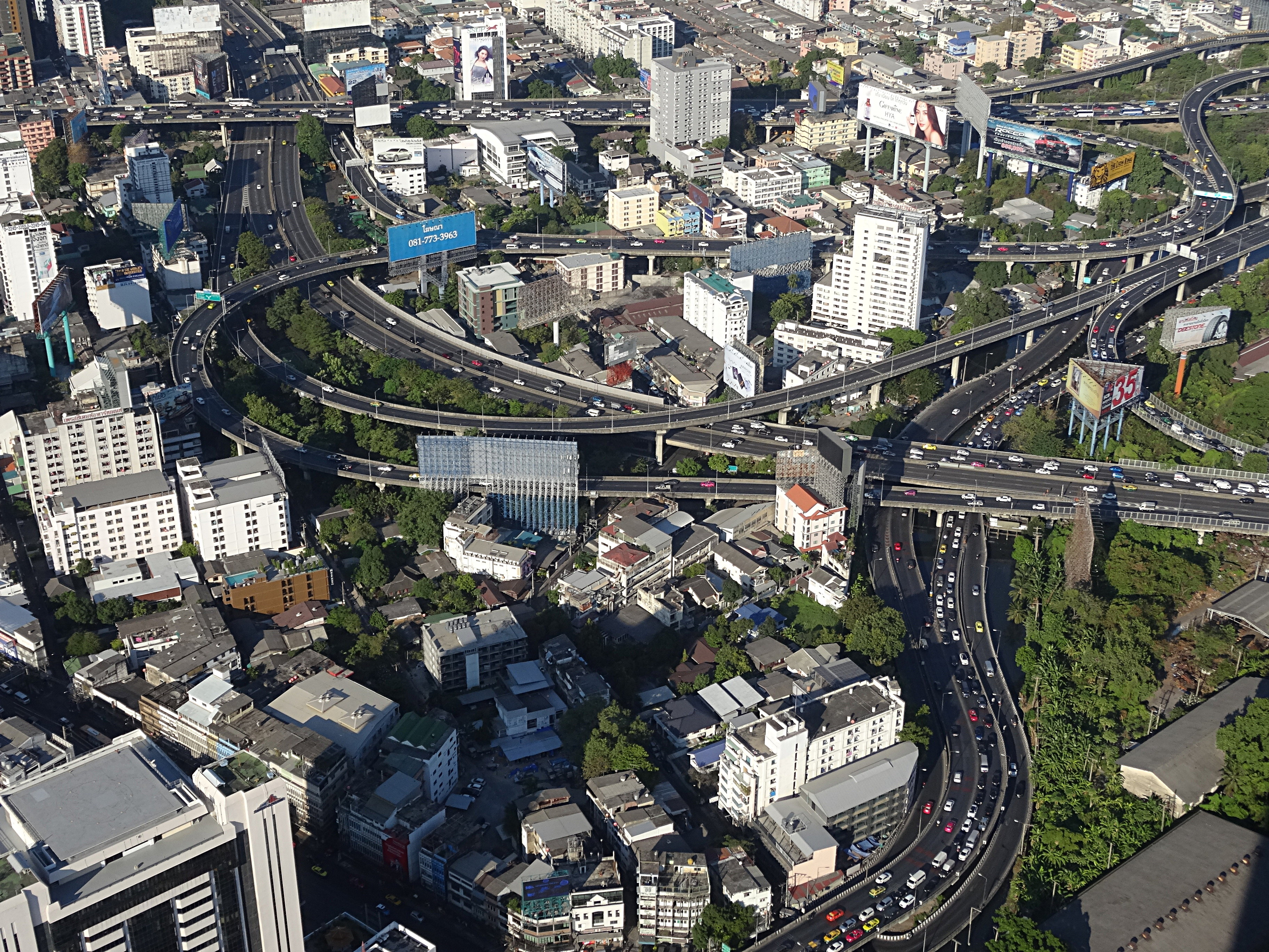 View to Makkasan Interchange of the Bangkok expressway